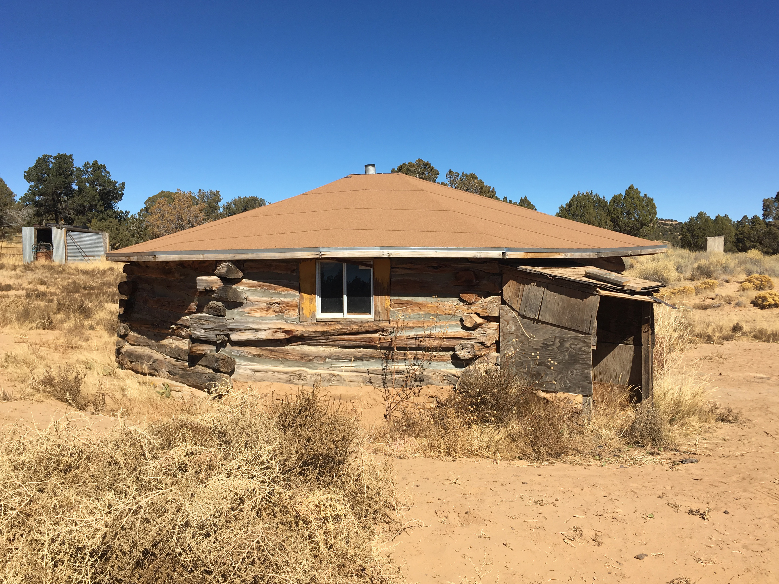 A Navajo hogan (with a woodshed on the right) on Navajo Nation